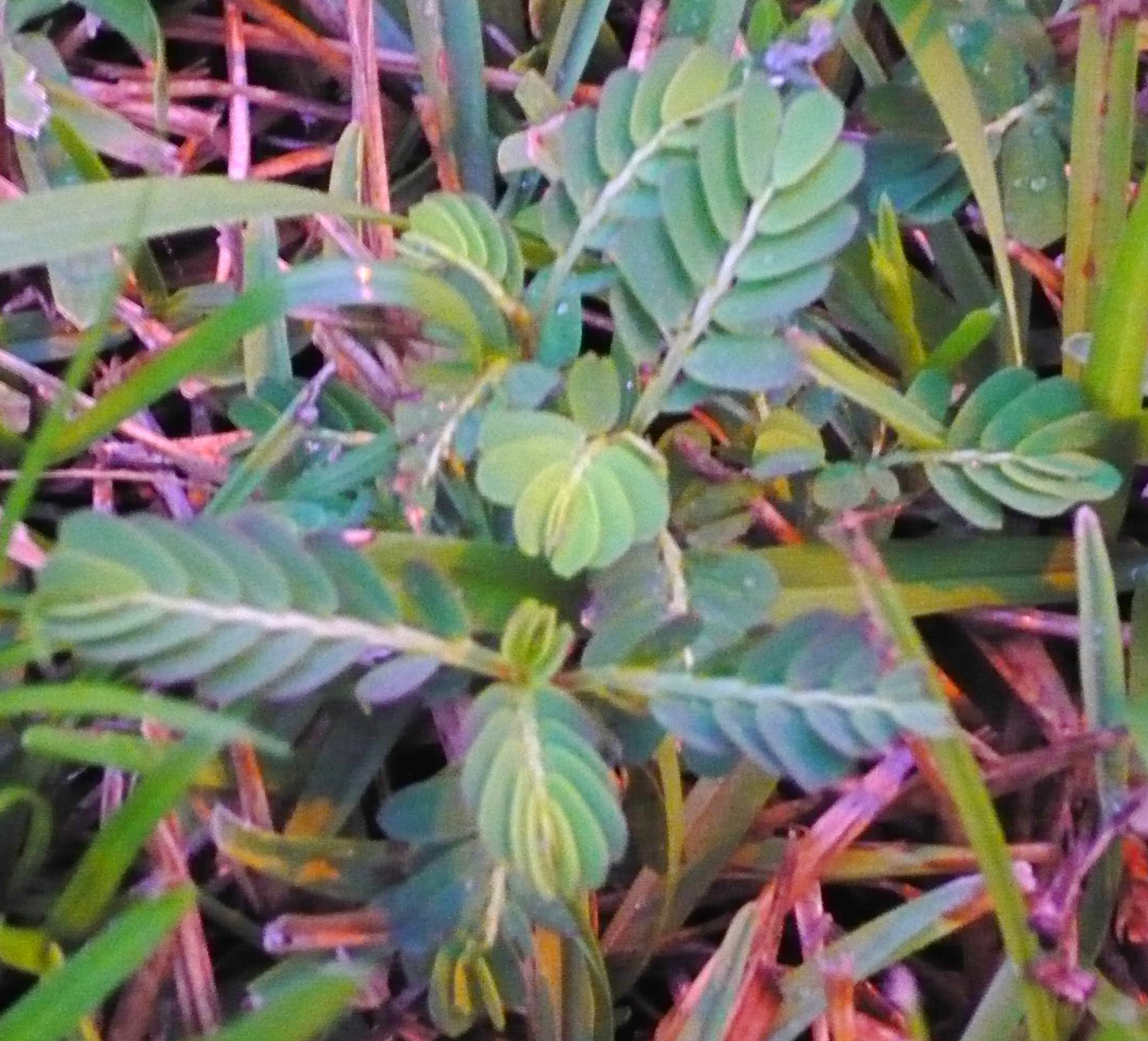 Phyllanthus urinaria L., commonly known as leafflower or chamber bitter